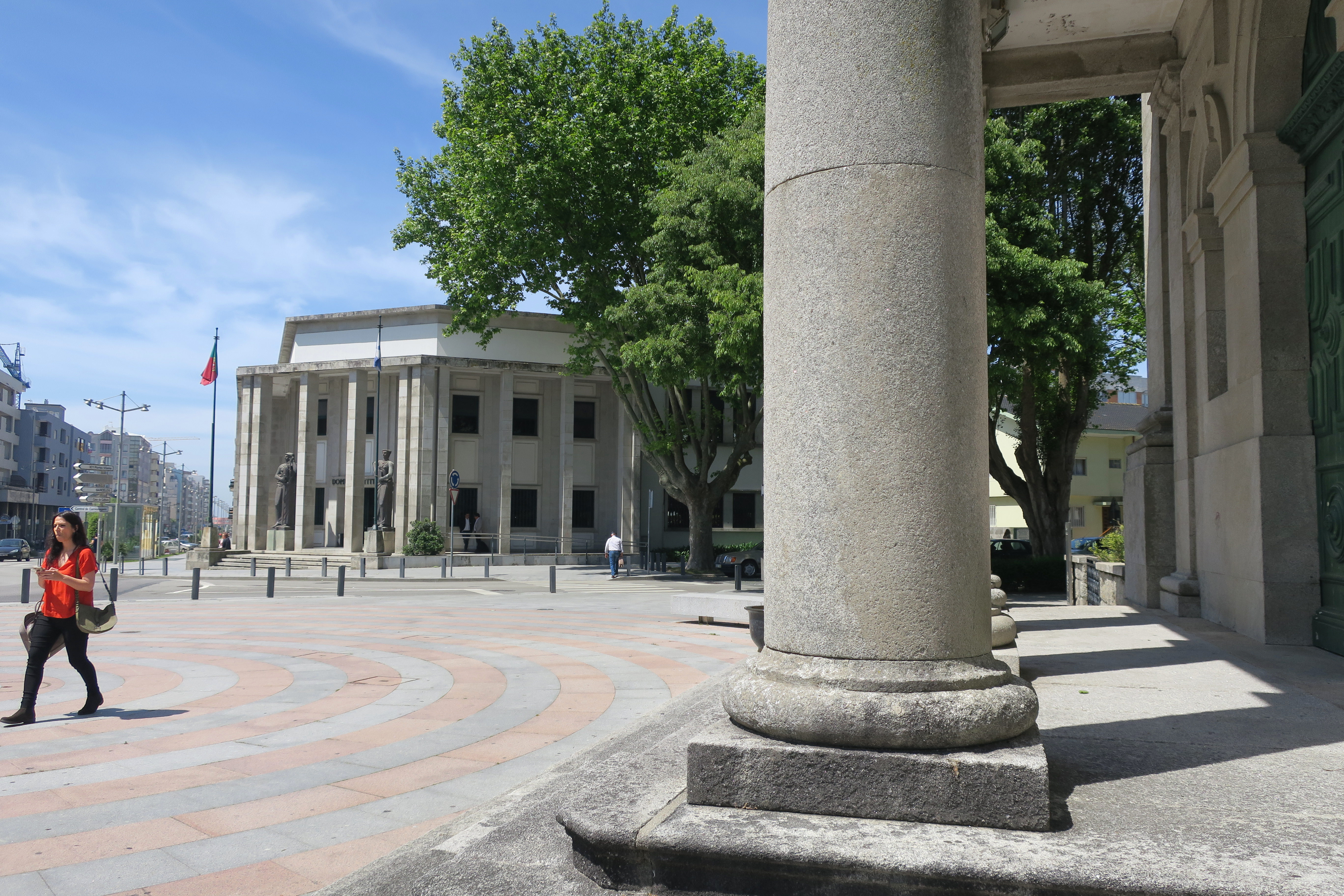 Palace of Justice